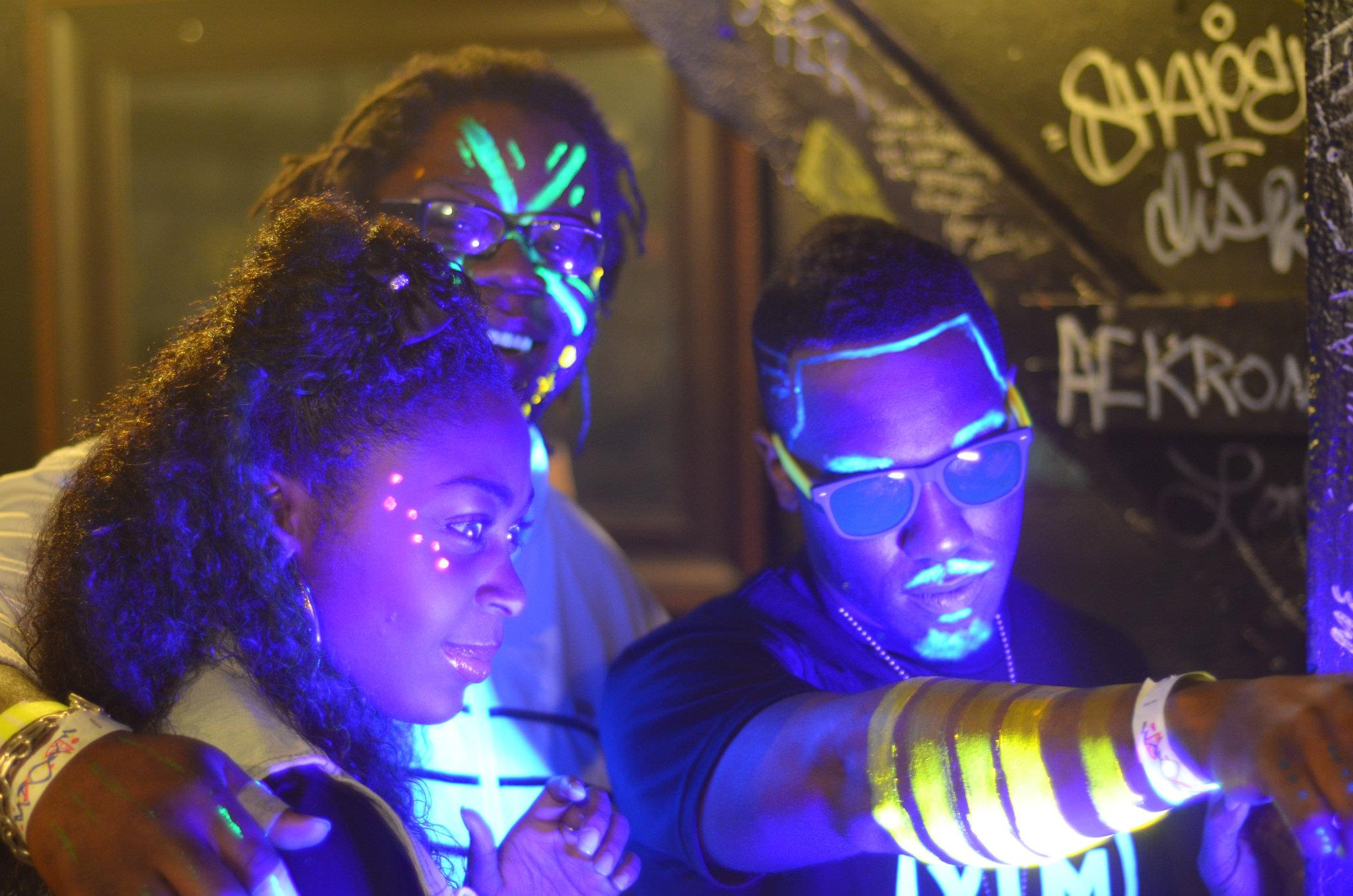 Xavier Marquis along with singer Gabrielle Samone and Djembe player Marcus Kar wearing Neon Paint